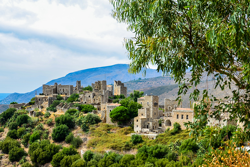 Βαθειά - Μάνη